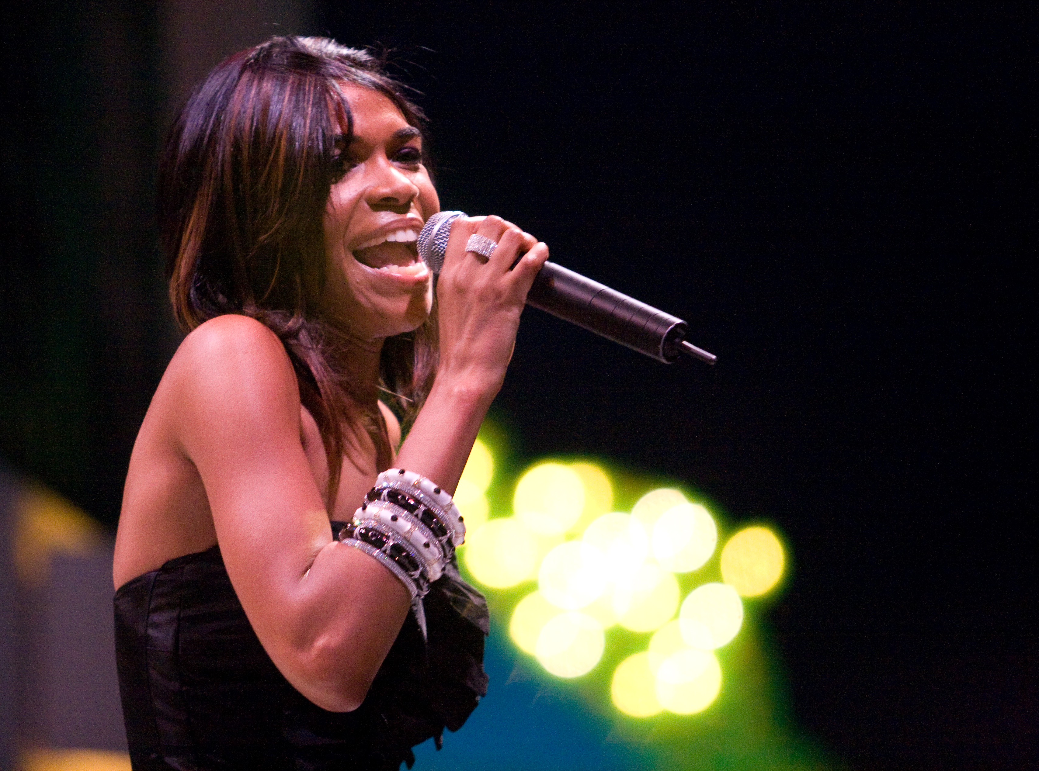 Michelle Williams performs at Rye Playland.